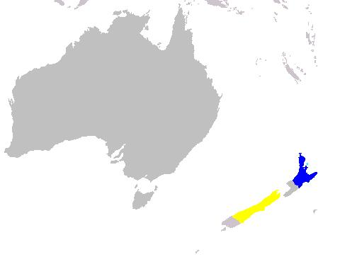 Anarhynchus_frontalis_distribution